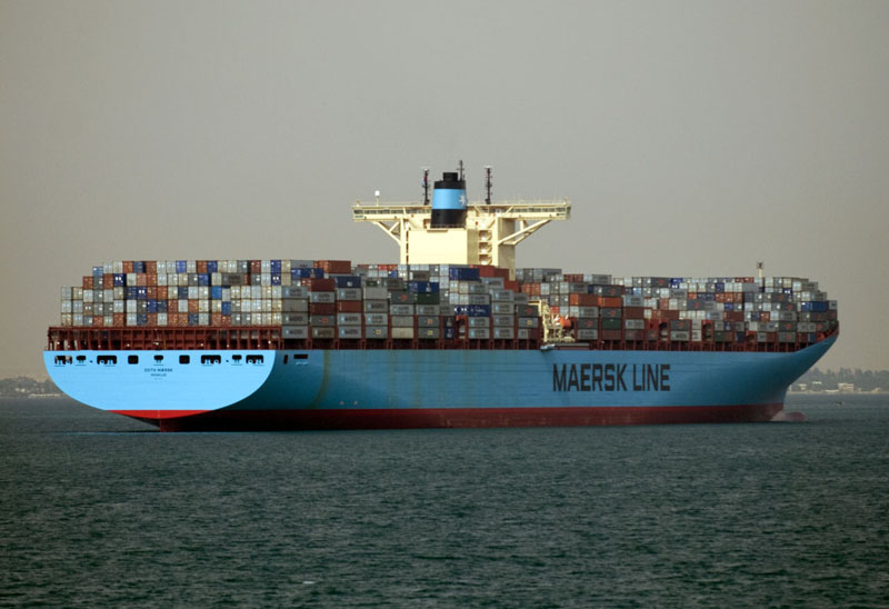 Mærsk group container ship Edith Maersk in the Suez Canal.